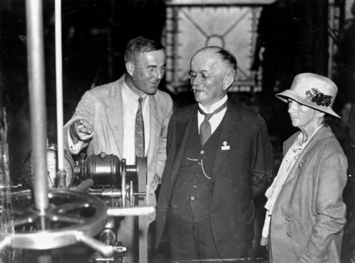 Image of Dr J.J.C. Bradfield and his wife during an engineering conference in 1933 where Bradfield was presented with the Peter Nicol Russell Medal. Dr John Bradfield designed the Sydney Harbour Bridge and the Story Bridge in Brisbane. He was educated at the North Ipswich State School, the Ipswich Grammar School and the University of Sydney.